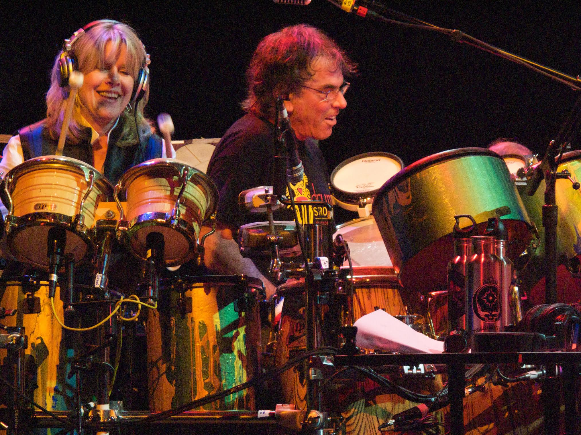 Tipper Gore and Mickey Hart drumming at the Verizon Center during The Dead's April 2009 concert